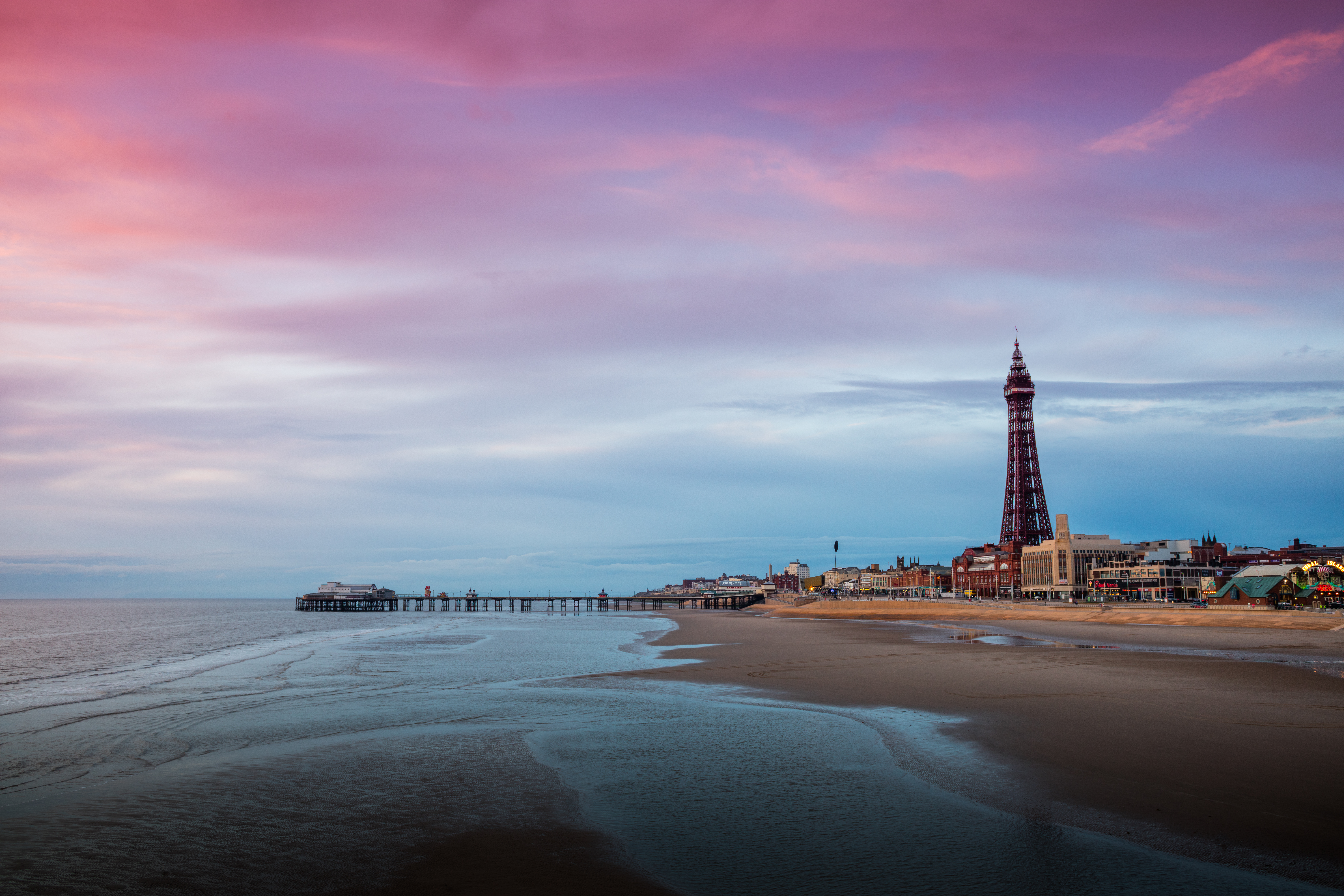 Here is a photograph taken of sunset in Blackpool overlooking Blackpool Tower and Blackpool North Pier. Located in Blackpool, Lancashire, England, UK